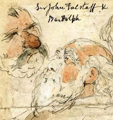 Drawing by George Cruikshank depicting Bardolph and Falstaff